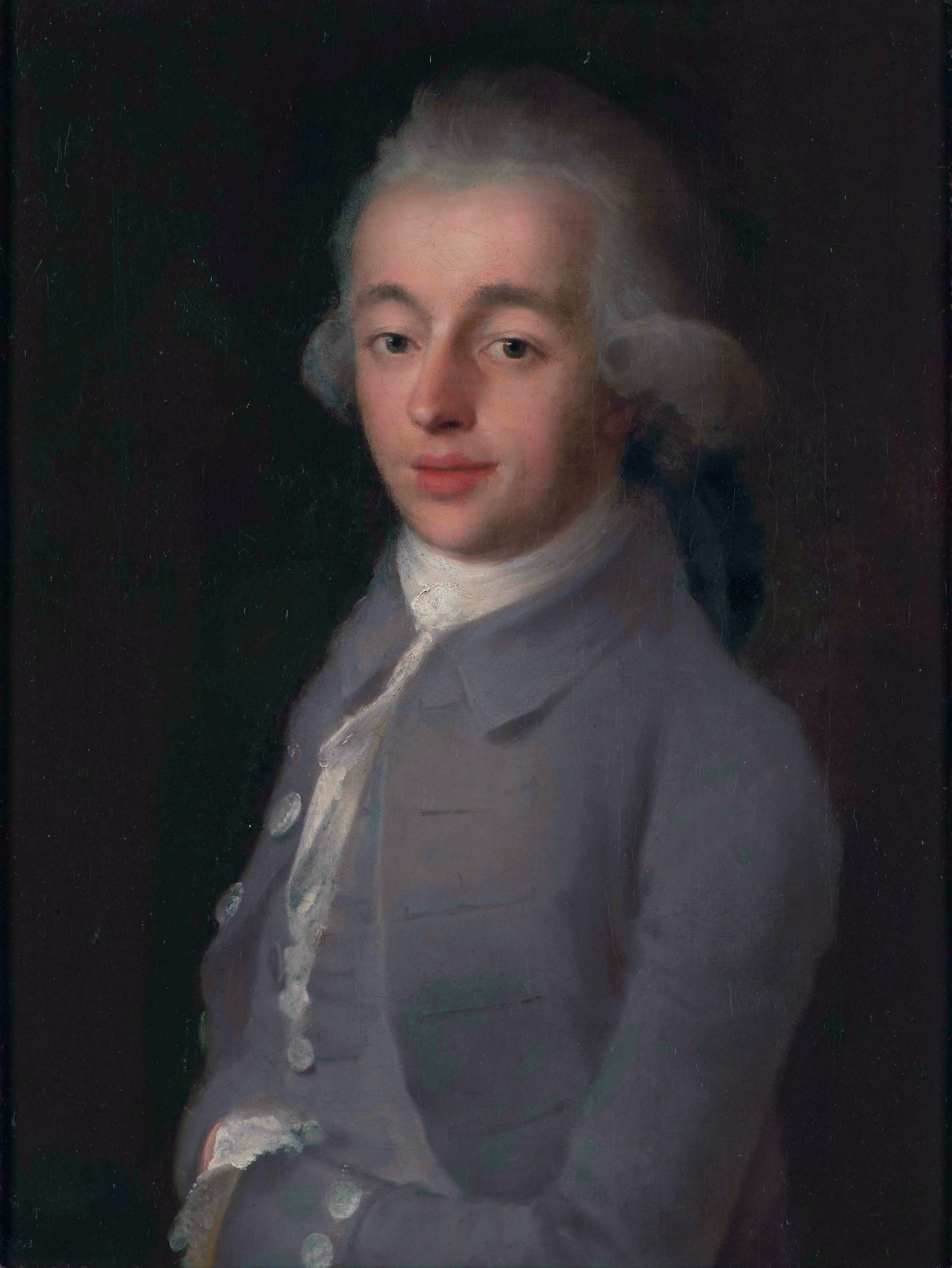 Jan de Kruyff oil on canvas 64,3 × 48,2 cm ca. 1785